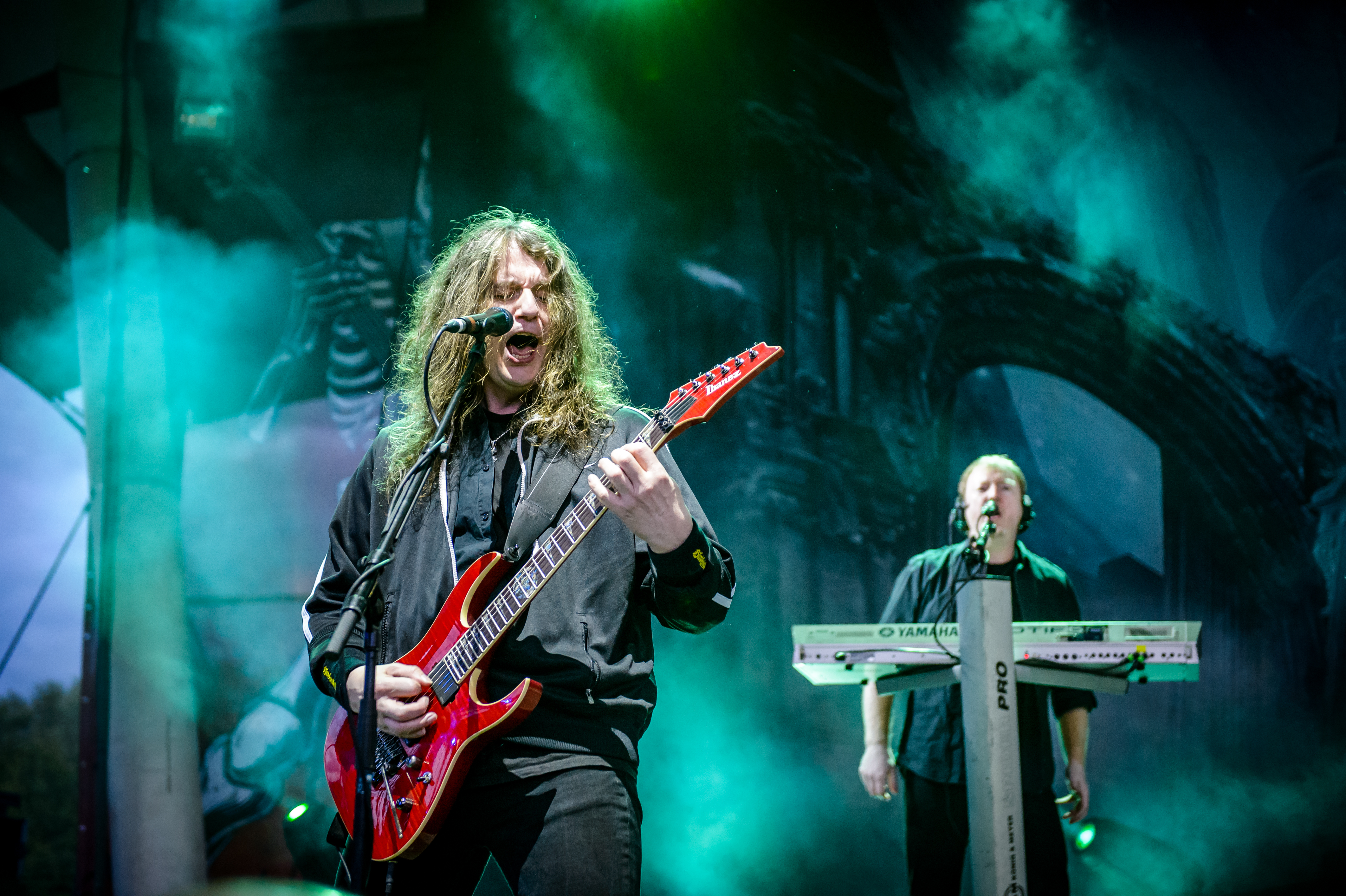 Blind Guardian; RockHard Festival 2016